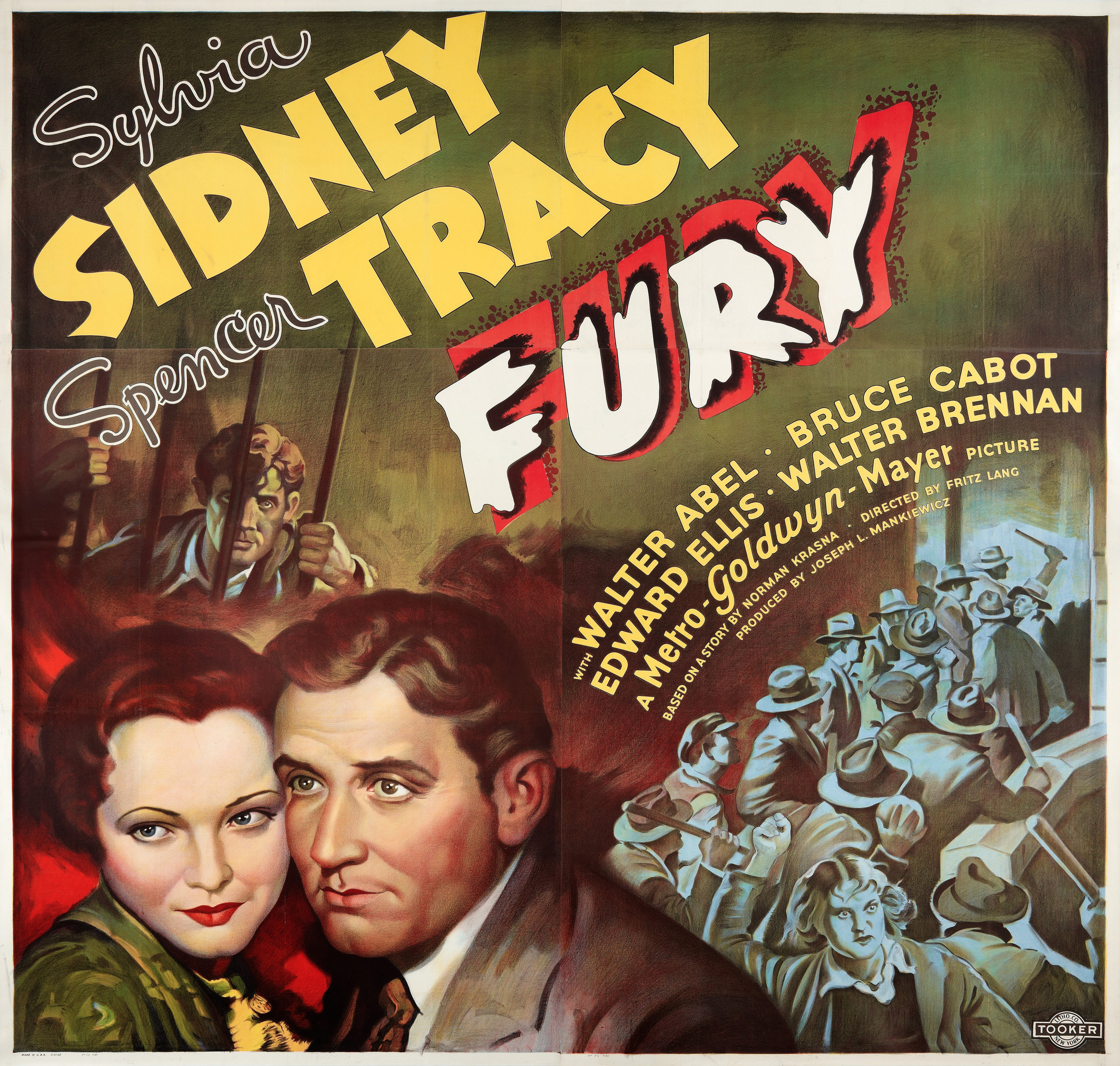 Theatrical poster for the American release of the 1936 film Fury. Six sheet (81" × 81").